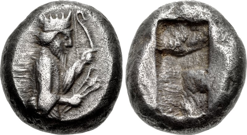 PERSIA, Achaemenid Empire. temp. Darios I. Circa 520-505 BC